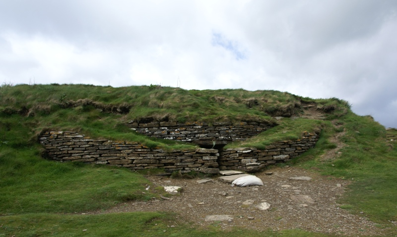 Isbister Chambered Cairn, South Ronaldsay, Orkneys, Scotland.